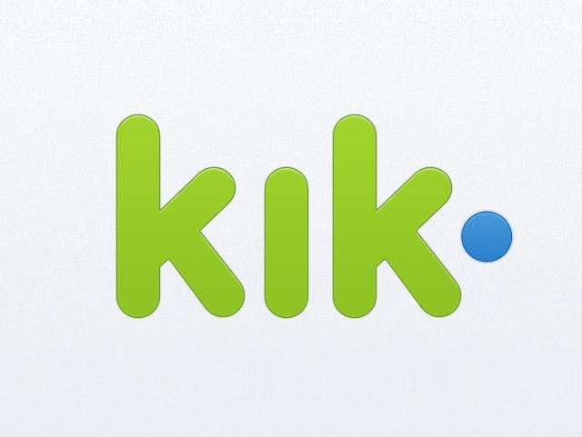 The Official Kik Logo